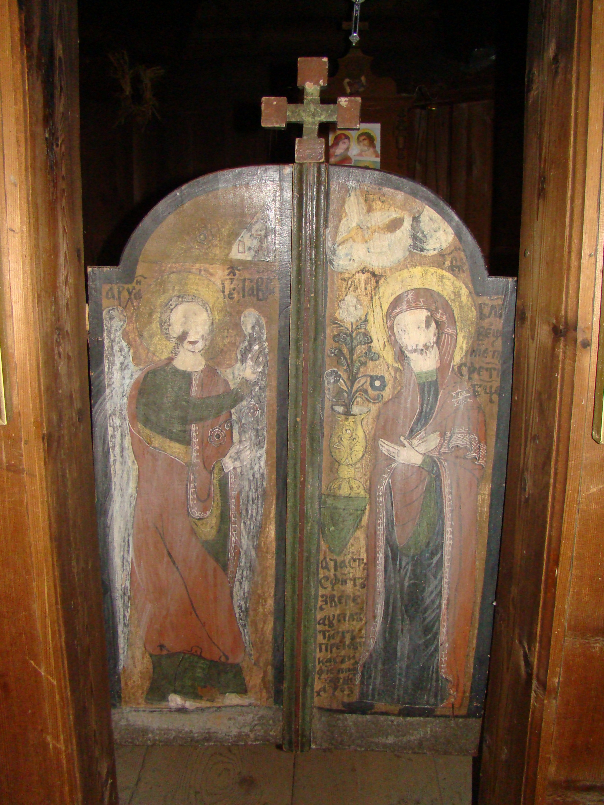 Wooden church in Lugașu de Sus, Bihor county, Romania